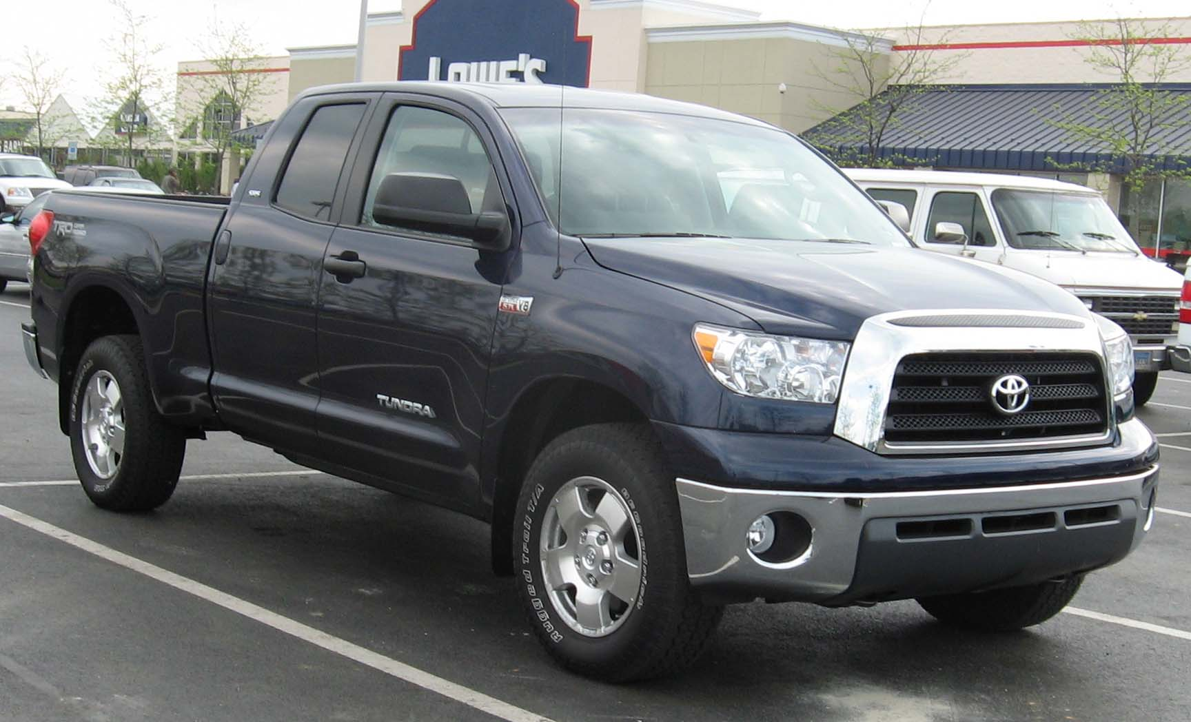 2007 Toyota Tundra photographed in USA.